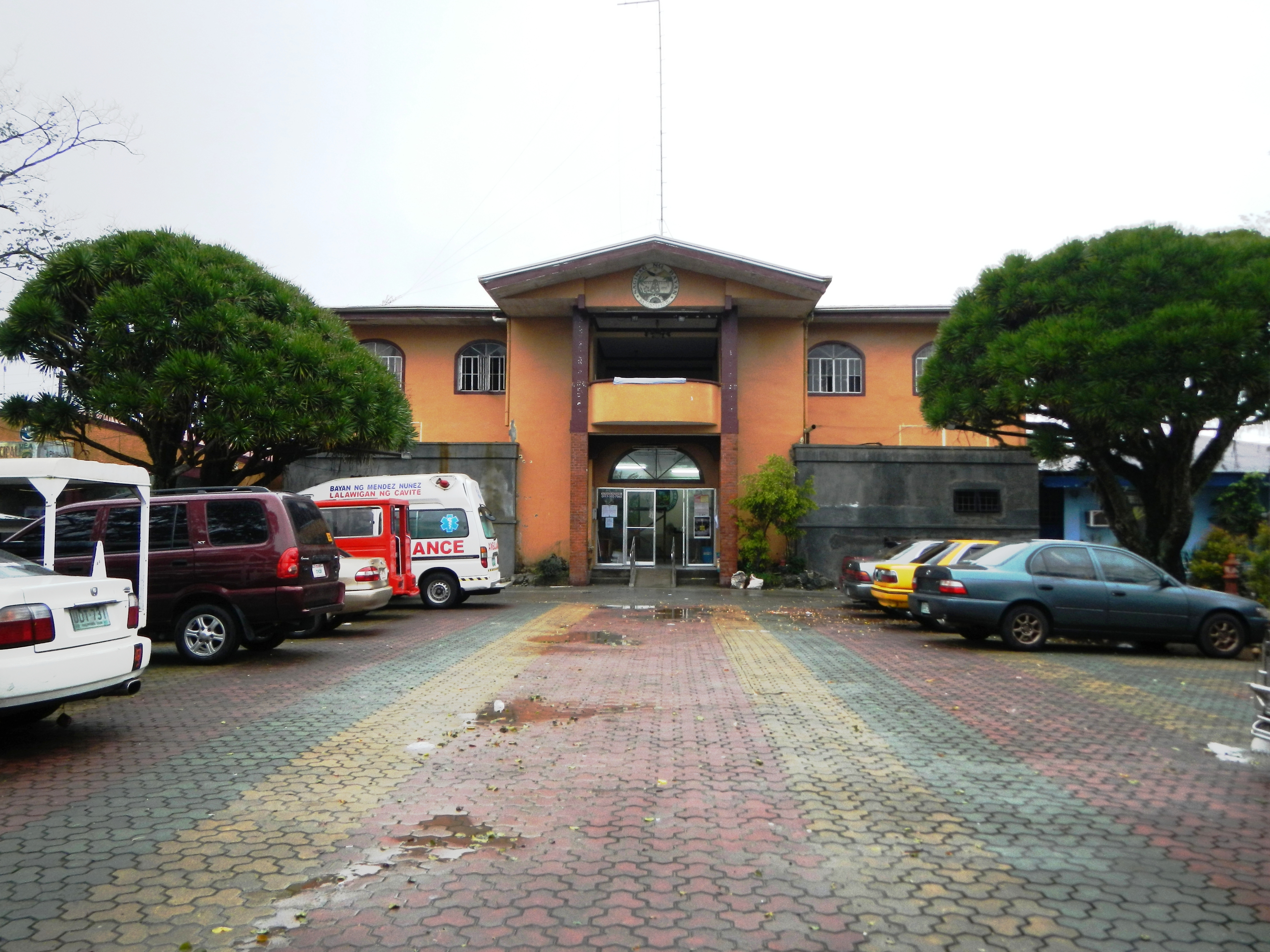 UploadWizard photos -- (General description, 3-dimension angle by angle photography of this town, church & landmarks) -- Mendez, Cavite [1] Municipal Hall and Park -- specifically: the Town Hall, Park, Plaza, Basketball Court, Covered Courrt, Children's playground, Grandstand in front of Town Hall, Coordinates: 14°7'19"N 120°53'27"E - (Mendez-Nuñez is a fourth class urban municipality in the province of Cavite,[2] Philippines; 2010 Philippine census, population of 28,570 people in an area of 43.27 square kilometers; naned after a Spanish naval officer and close friend, Commodore Castro Méndez Núñez[3] as of 1 January 1915 became independent town politically subdivided into 25 barangays.[4] Geographical location: Cavite, Region 4, Philippines, Asia Geographical coordinates: 14° 7' 43" North, 120° 54' 21" East, it is beside the Church: Vicariate of The Seven Archangels (Tagaytay City/Mendez/Indang/Alfonso/General Aguinaldo) Vicar Forane: Rev Fr. Luisito C. Gatdula Vicarial Representative: Rev. Fr. Hermenegildo M. Asilo St. Augustine Parish Church of Mendez (Town Proper).